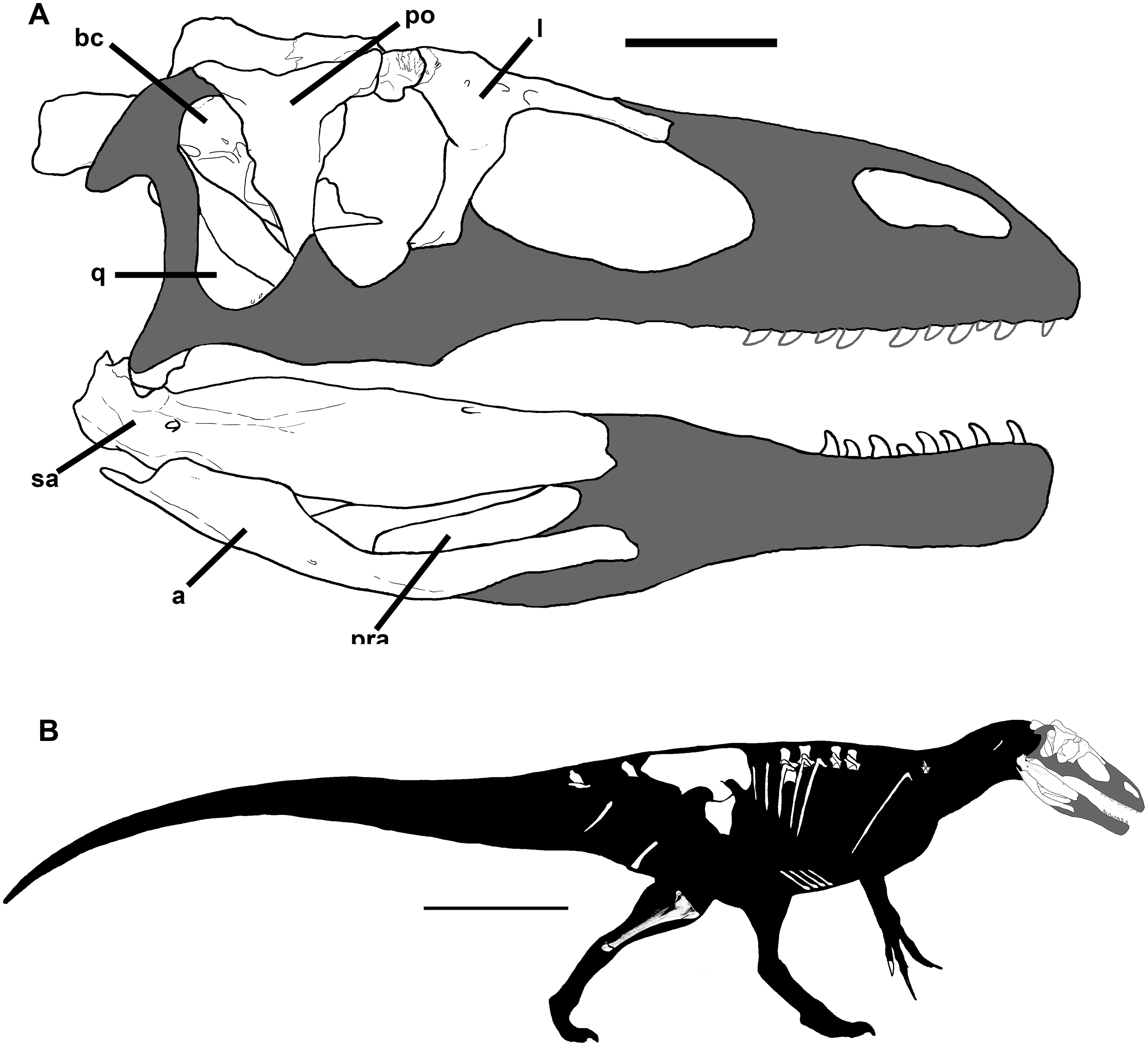 A) Skull reconstruction of Murusraptor barrosaensis, MCF-PVPH-411. B) Body reconstruction of Murusraptor barrosaensis, MCF-PVPH-411. Both illustrations show recovered elements in white. Scale bars: A = 10 cm, B = 1 m.